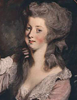 Peggy Shippen cropped from portrait by Daniel Gardner